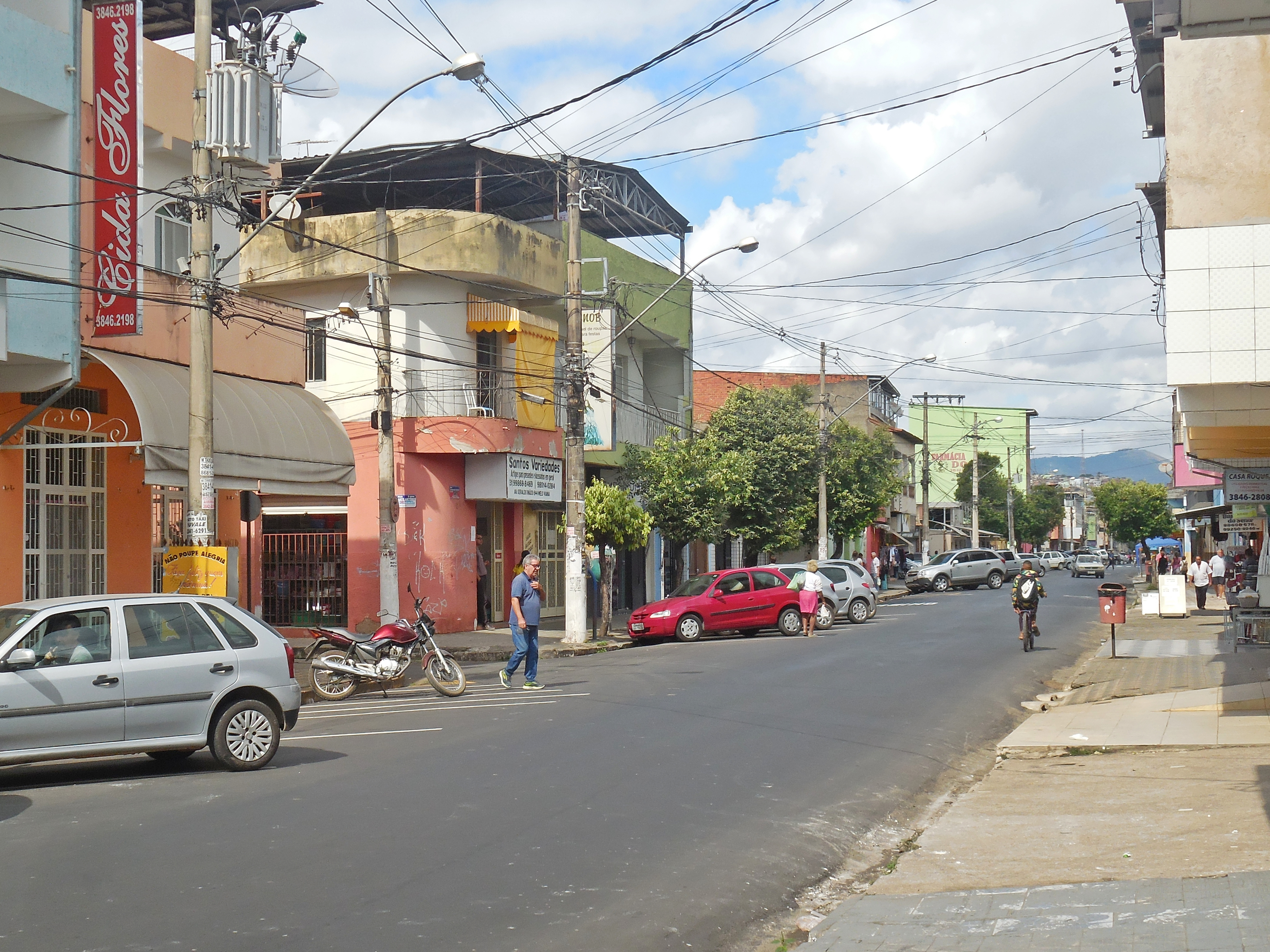 Stretch of the Geraldo Inácio Avenue, in Coronel Fabriciano, Minas Gerais, Brazil.